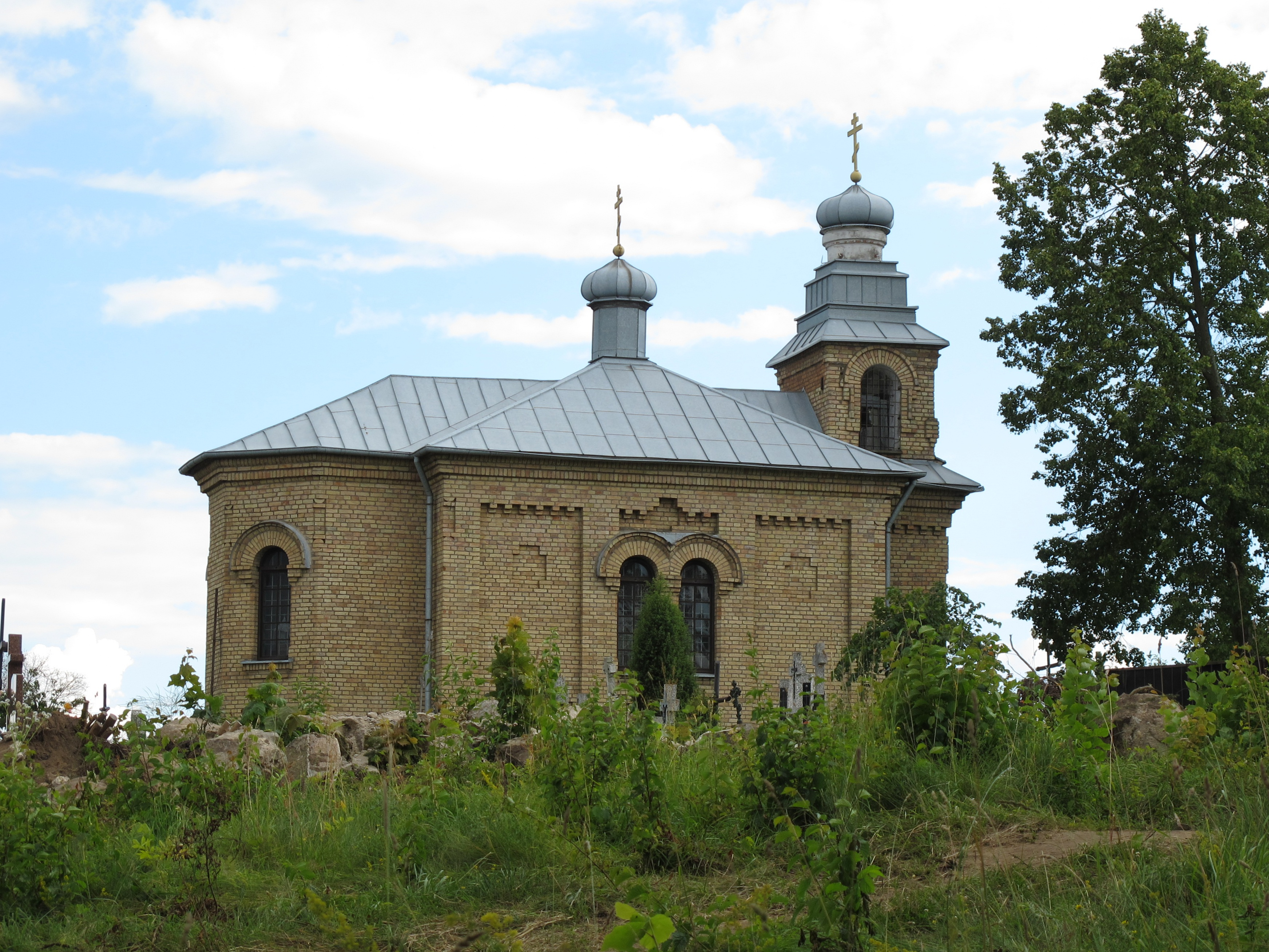 Chapel of woman martyr, st. Pawła Kuncewiczowa at orthodox cemetery in Sokółka by Mariańska street, gmina Sokółka, podlaskie, Poland